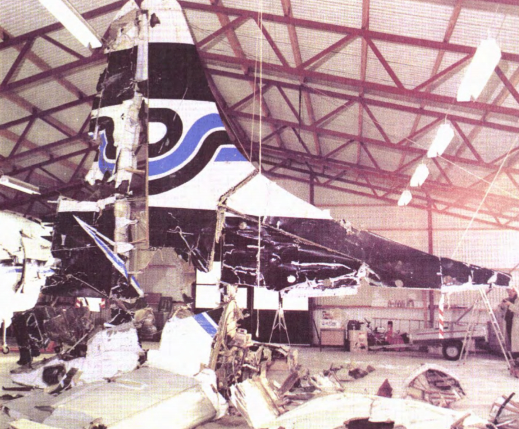 Partnair LN-PAA wreckage